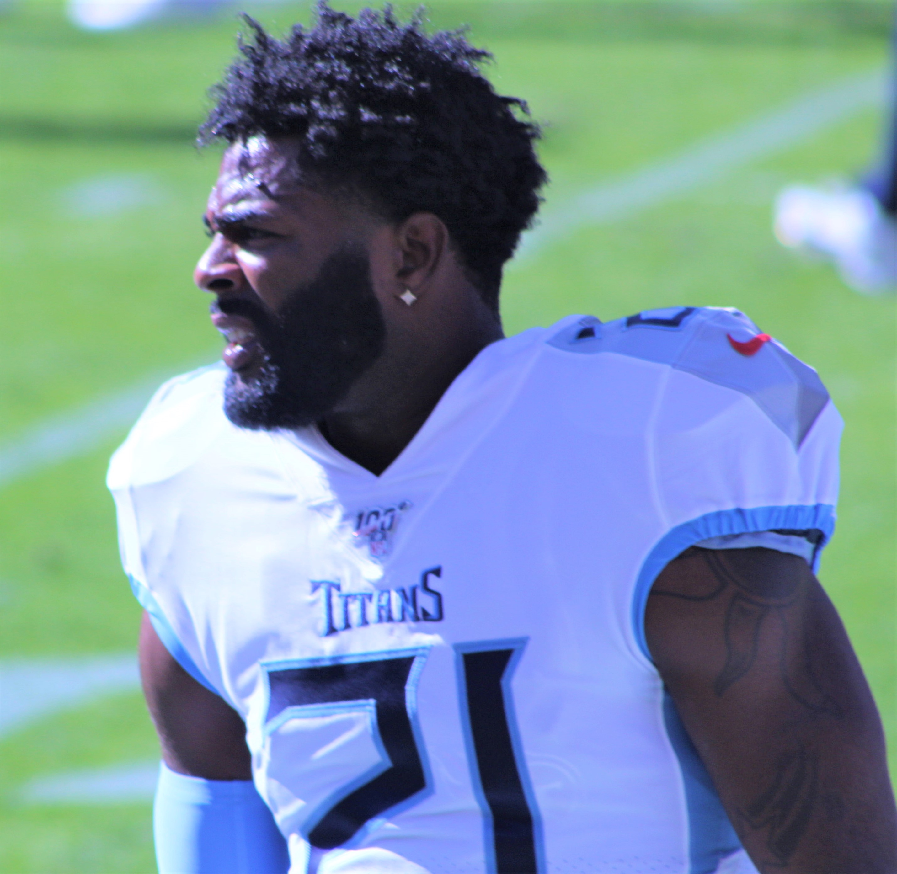 Malcolm Butler with the Tennessee Titans on October 13, 2019